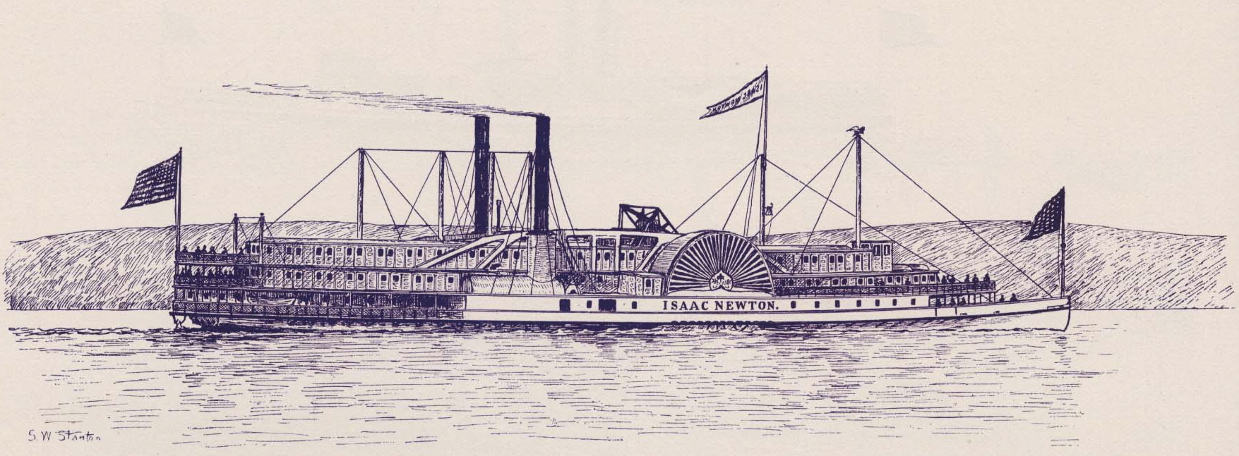 Isaac Newton, Hudson River steamboat, as rebuilt.